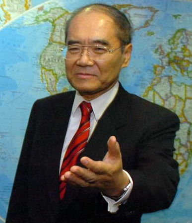 Kōichirō Matsuura of UNESCO - Official photograph, Argentina